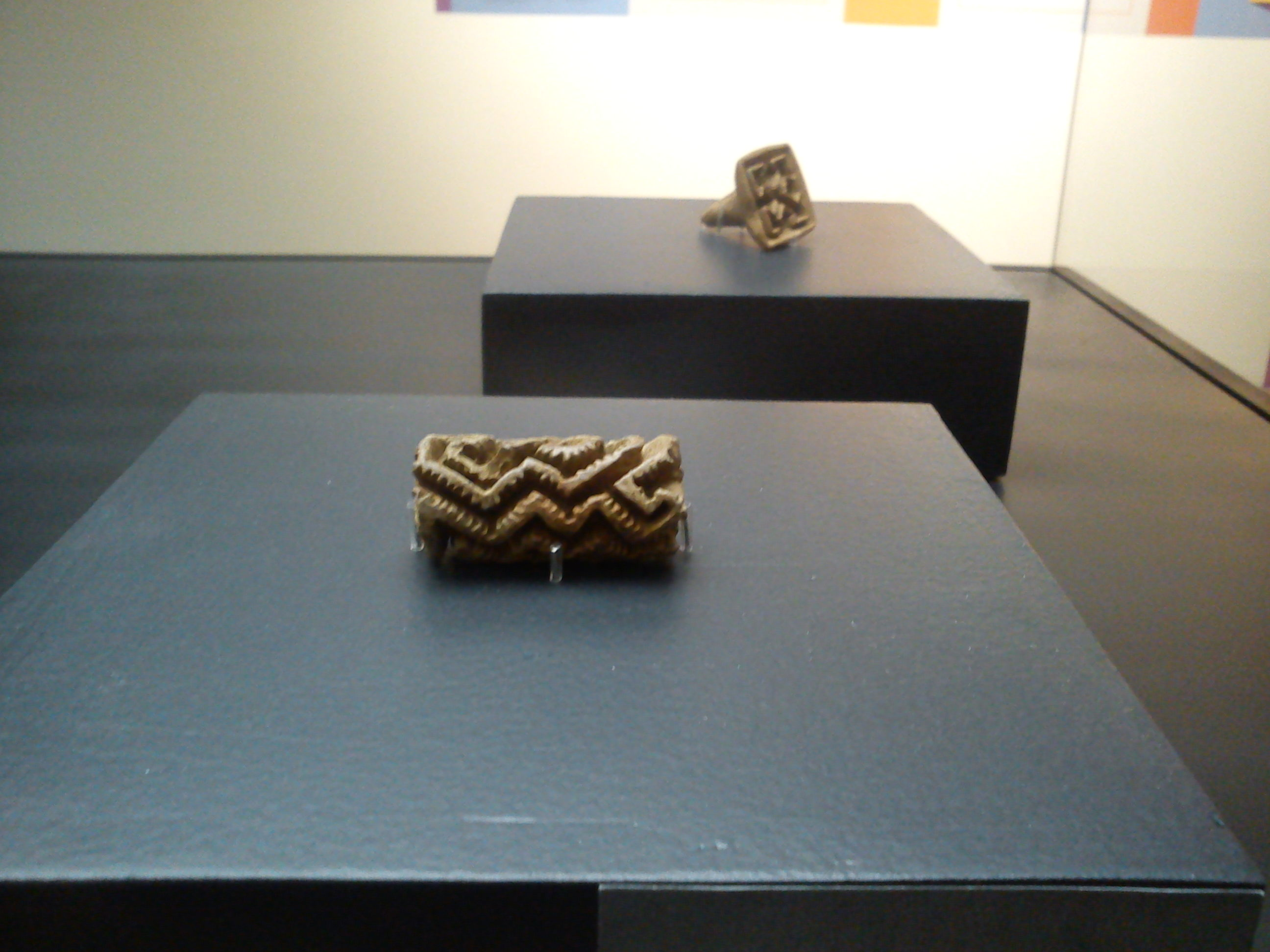 Pre-columbian ceramic seals from Central Caribean Costa Rica, 300 BC - 300 AC. This seals were used in skin decorations.